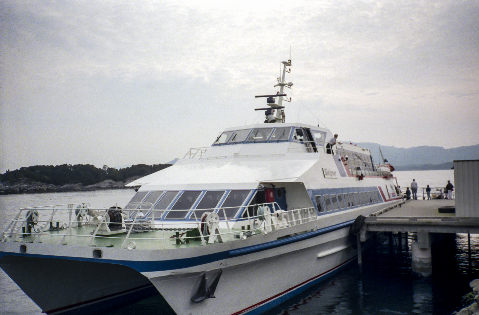 Catamaran Sleipner, in Sunnhordland 1989